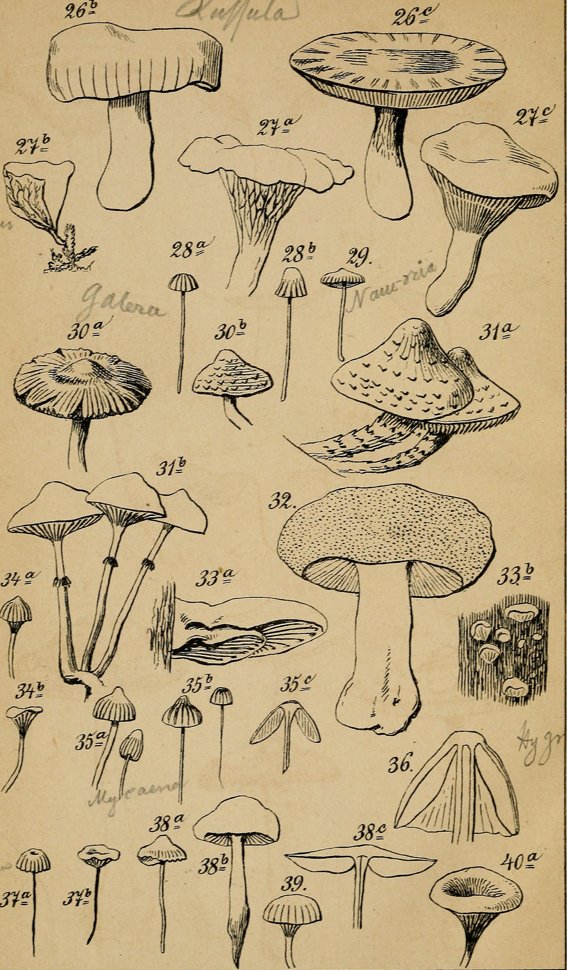 Title: Der Führer in die Pilzkunde : Anleitung zum methodischen, leichten und sichern Bestimmen der in Deutschland vorkommenden Pilze : mit Ausnahme der Schimmel- und allzu winzigen Schleim- und Kern-Pilzchen Year: 1871 (1870s) Authors: Kummer, Paul, 1834-1912 Subjects: Fungi; Fungi Publisher: Zerbst : Verlag von E. Luppe's Buchhandlung Text Appearing Before Image: ' Text Appearing After Image: '